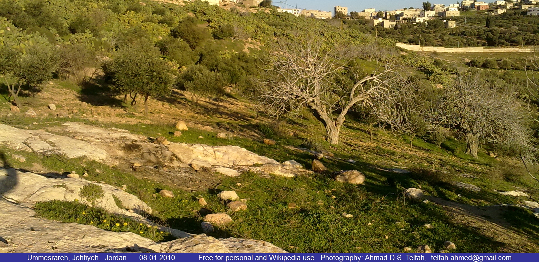 Ummesrareh in Johfiyeh in Irbid - Jordan